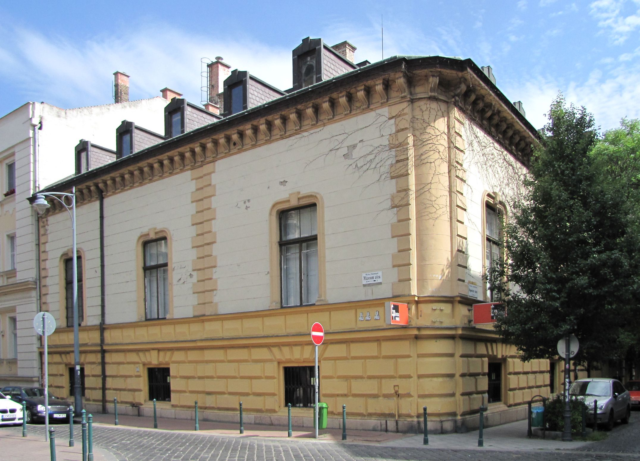 Former Almásy Palace, Ötpacsirta Street, Budapest. Today is houses the Hungarian Architects Chamber.